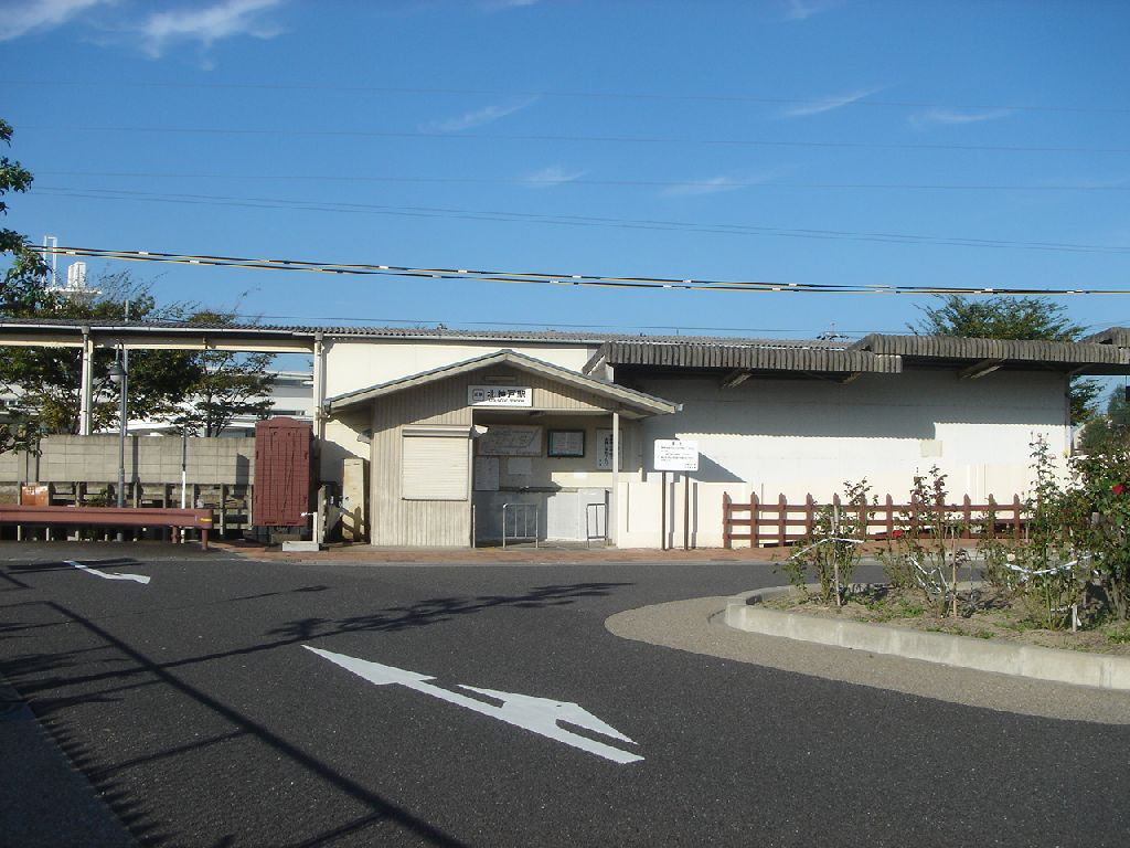 Yoro Railway Kita-Godo Station